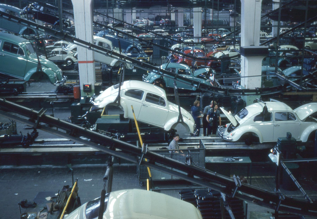 Inside the Volkswagen plant. The bodies are dropped from an overhead line to be attached to the chassis.